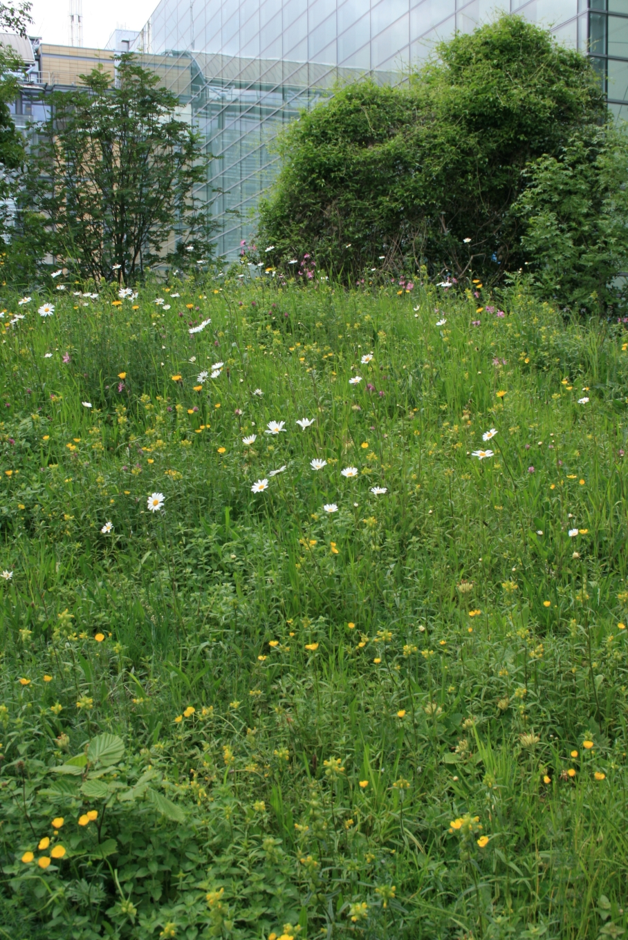 The Wildlife Garden at the Natural History Museum in London